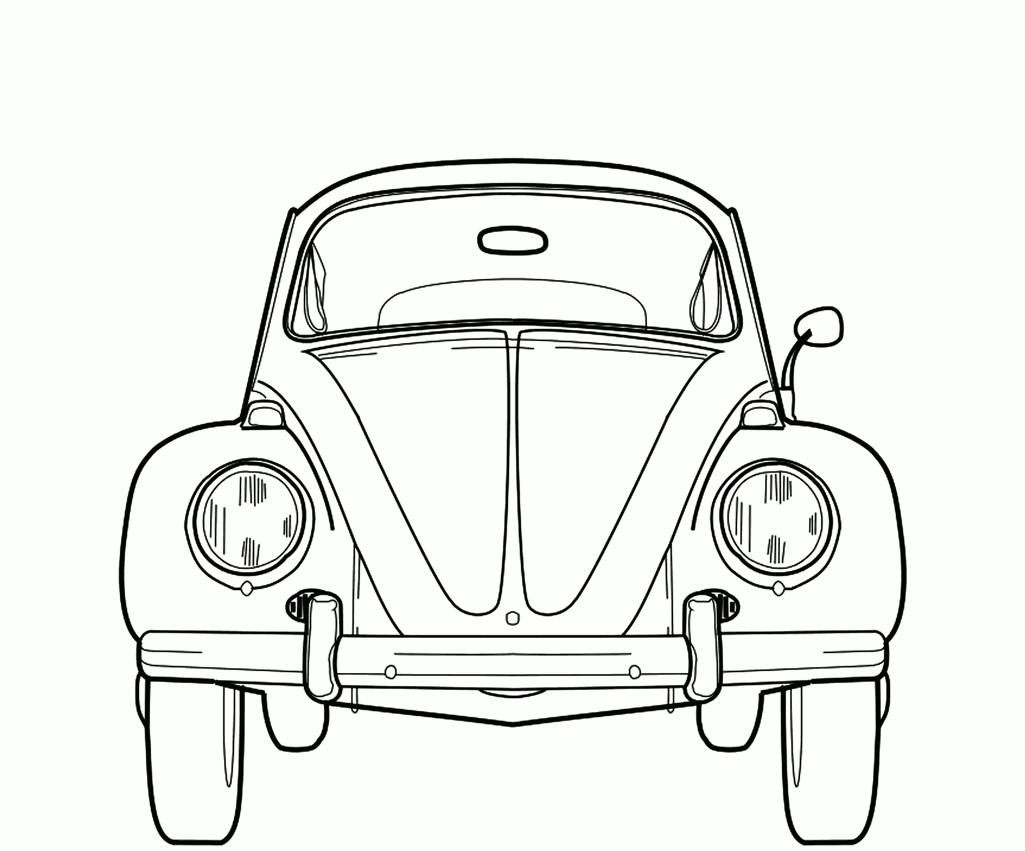 Classic people mover